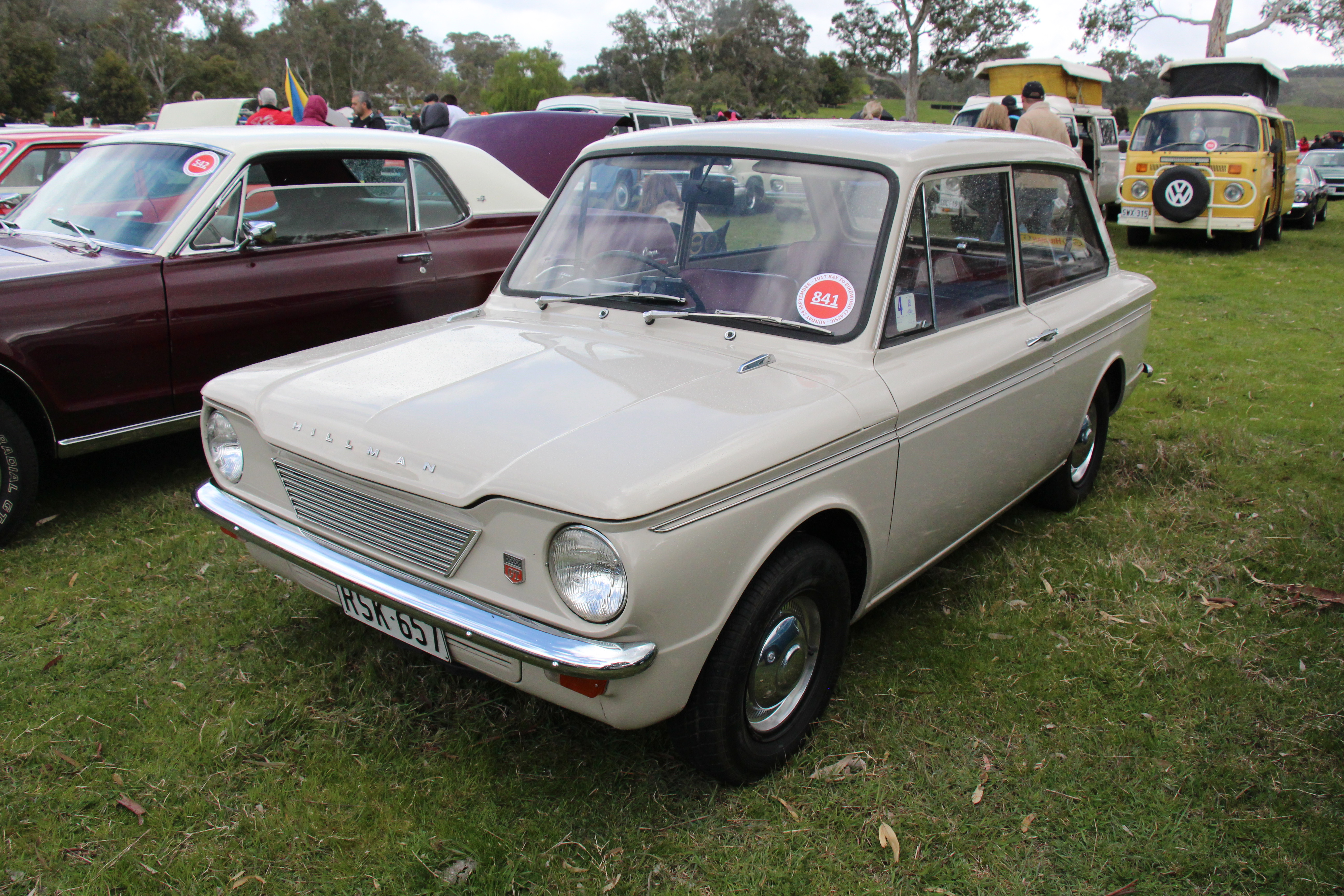 Hillman GT, (refer Hillman GT sales brochure front cover, as produced by Chrysler Australia. It was developed from the Singer Chamois Sport, a variant of the British Hillman Imp. The GT, which was released in April 1967, was never badged or referred to by Chrysler Australia as a Hillman Imp GT, but rather as the Hillman GT. (refer: Gavin Farmer, Great Ideas in Motion, A History of Chrysler in Australia 1946–81, pages 275-276) The Hillman Imp was a compact, rear-engined saloon car built from 1963-76 to compete with the Mini. There were many badge engineered variants sold all over the world. Available in Standard, Deluxe or Super. Rootes Australia assembled the Imp from 1964. In America, it was the Sunbeam Imp and in France, the Singer Chamois, both names also being used in the UK market. Hillman Imp Mark I 1963-65 Hillman Imp Mark II 1965-68 Hillman Imp Mark III 1968-76 Hillman Imp Californian 1967-70 Fastback version Hillman Husky 1967-70 Estate Commer Imp Van 1965-68 Hillman Imp Van 1968-70 Engine; Aluminium 875cc rear mounted on 45 degrees.